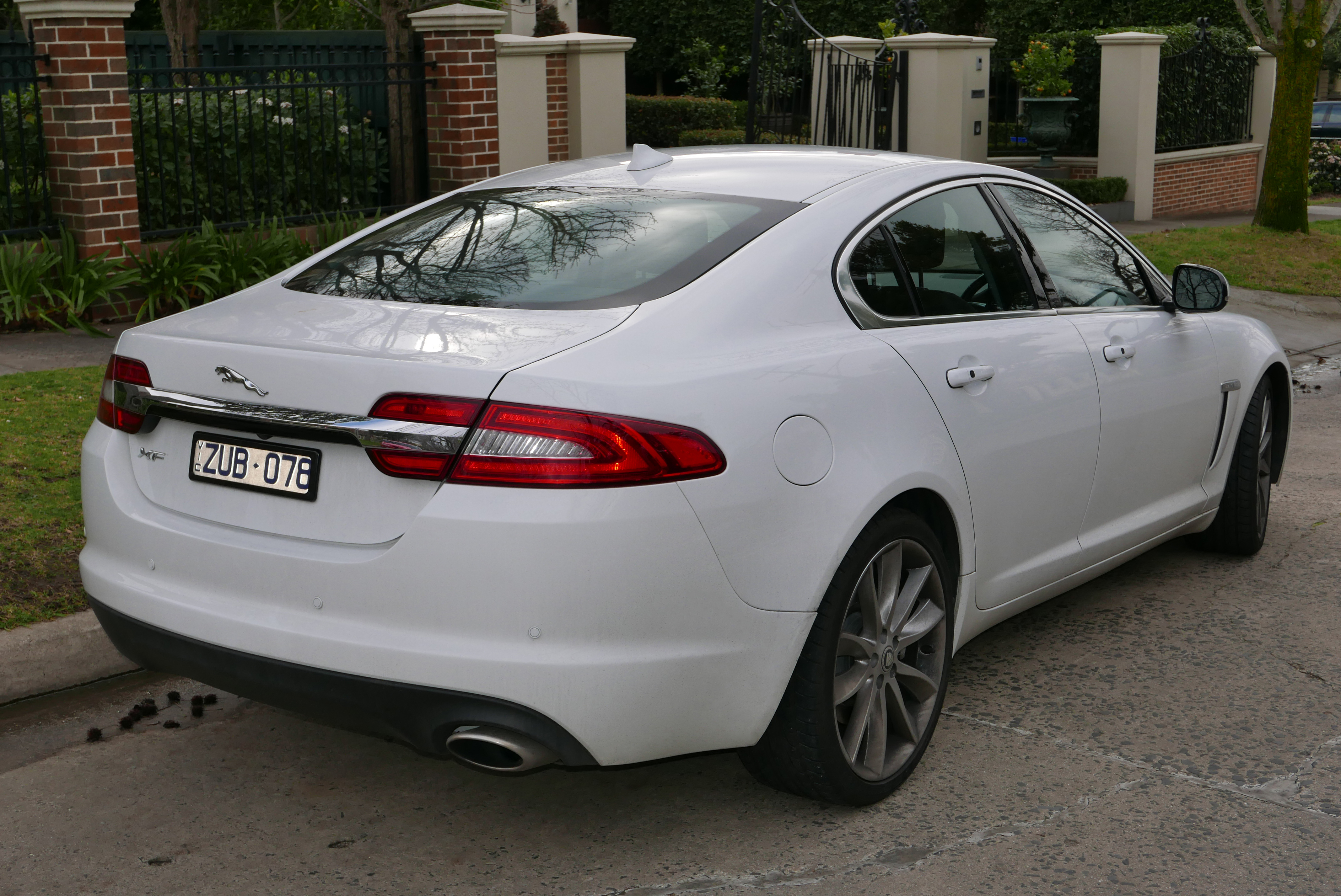 2013 Jaguar XF (X250 MY13) Luxury 2.2 sedan. Model details as per: [1]. Photographed in Balwyn, Victoria, Australia. Vehicle registration enquiry resultsJurisdictionVictoriaRegistrationZUB078Chassis codeSAJAC0567DDS71694Engine codeDZ804021531224DTCompliance date2013-02Year of manufacture2013